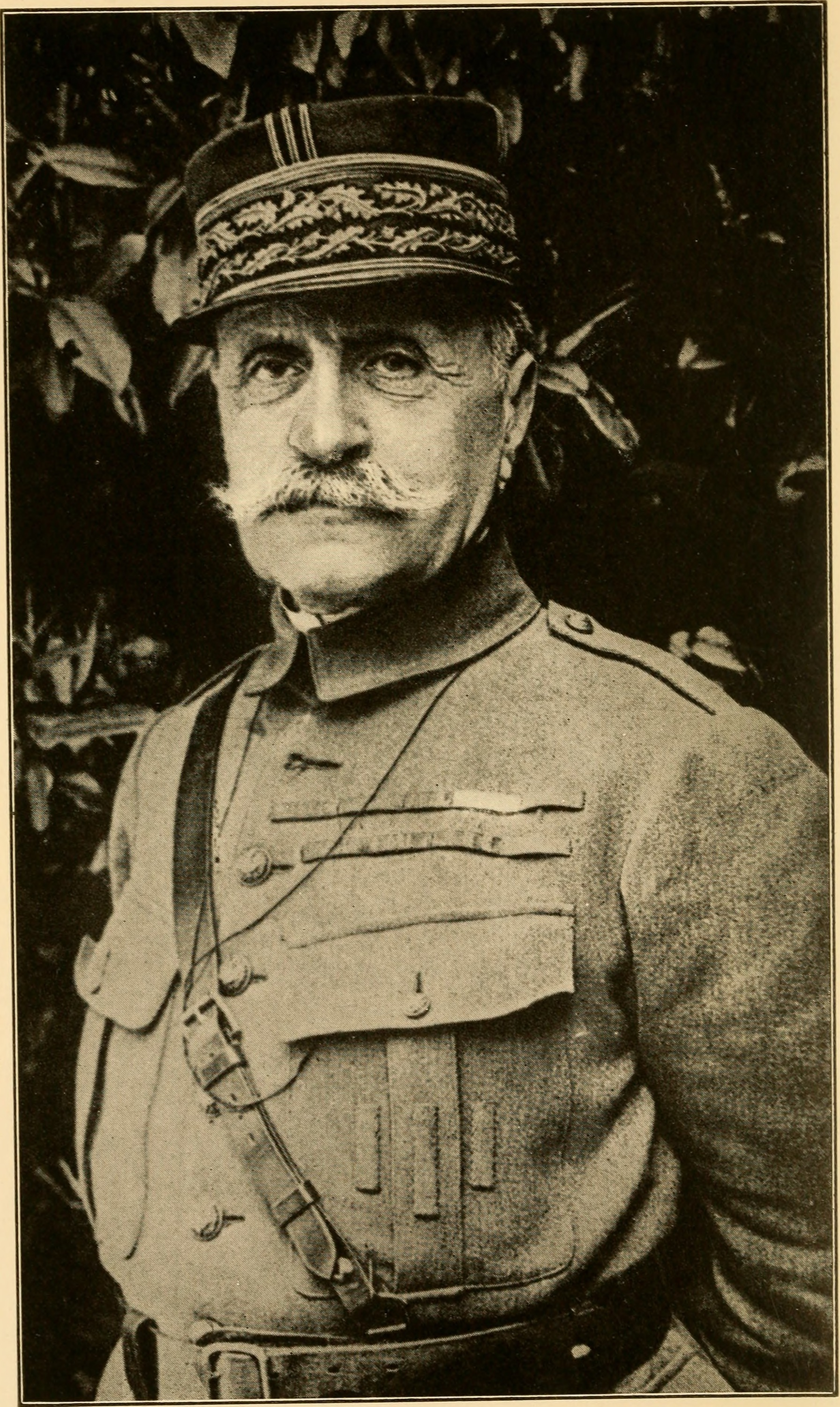 Title: Famous generals of the great war who led the United States and her allies to a glorious victory Year: 1919 (1910s) Authors: Johnston, Charles Haven Ladd, 1877- (from old catalog) Subjects: World War, 1914-1918 Generals Publisher: Boston, The Page company Text Appearing Before Image: ' Text Appearing After Image: FERDINAND FOCH (See page 90) Famous Generals OF THE Great War WHO LED THE UNITED STATES AND HERALLIES TO A GLORIOUS VICTORY By CHARLES H. L. JOHNSTON Author of Famous Scouts, Famous Indian Chiefs,Famous Cavalry- Leaders, Famous Frontiersmen,Famous Privateersmen, Famous Discoverersand Explorers of America, etc Illustratedfamousgeneralsof01john